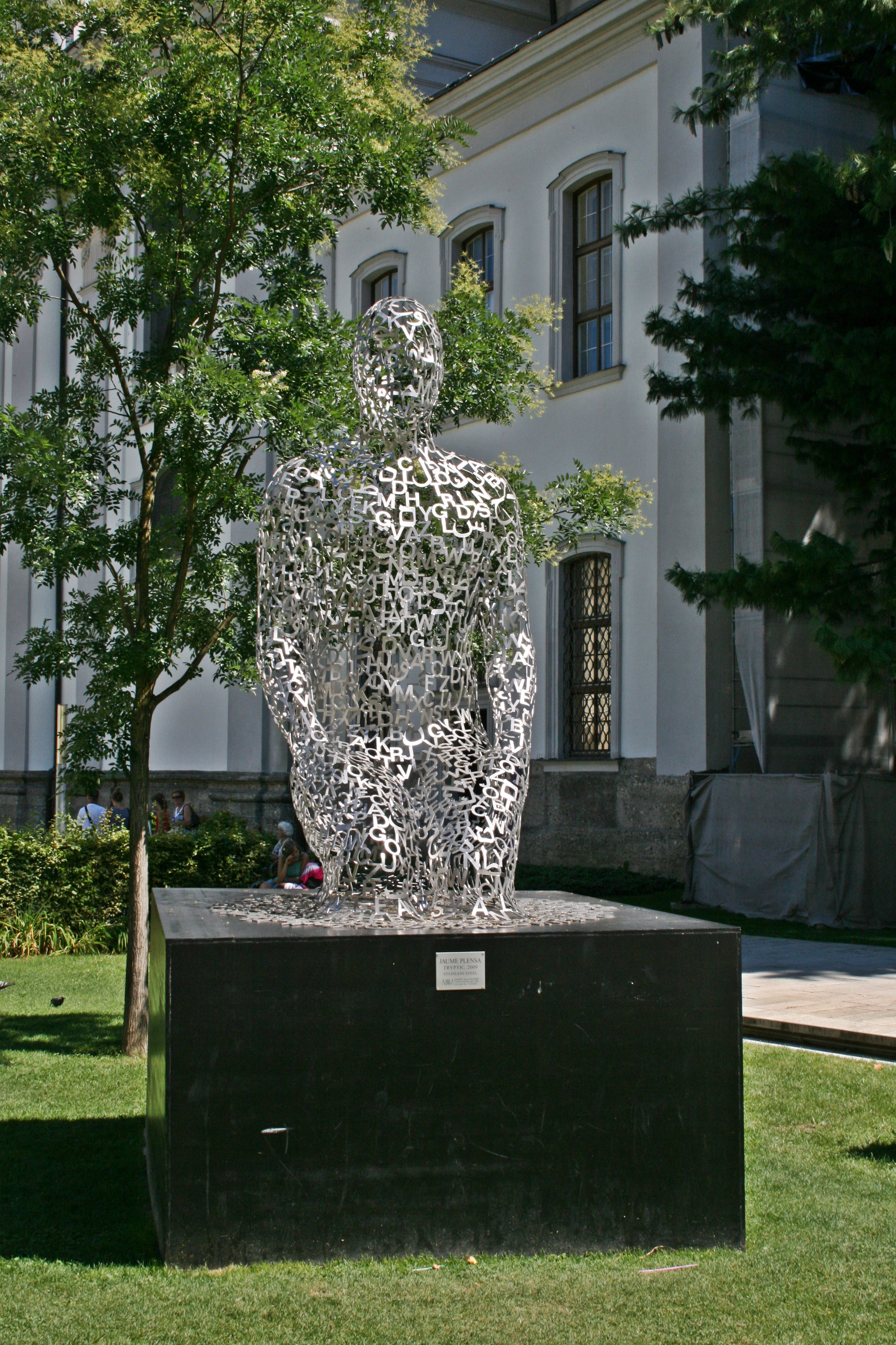 Sculpture Tryptic 2009 in Salzburg